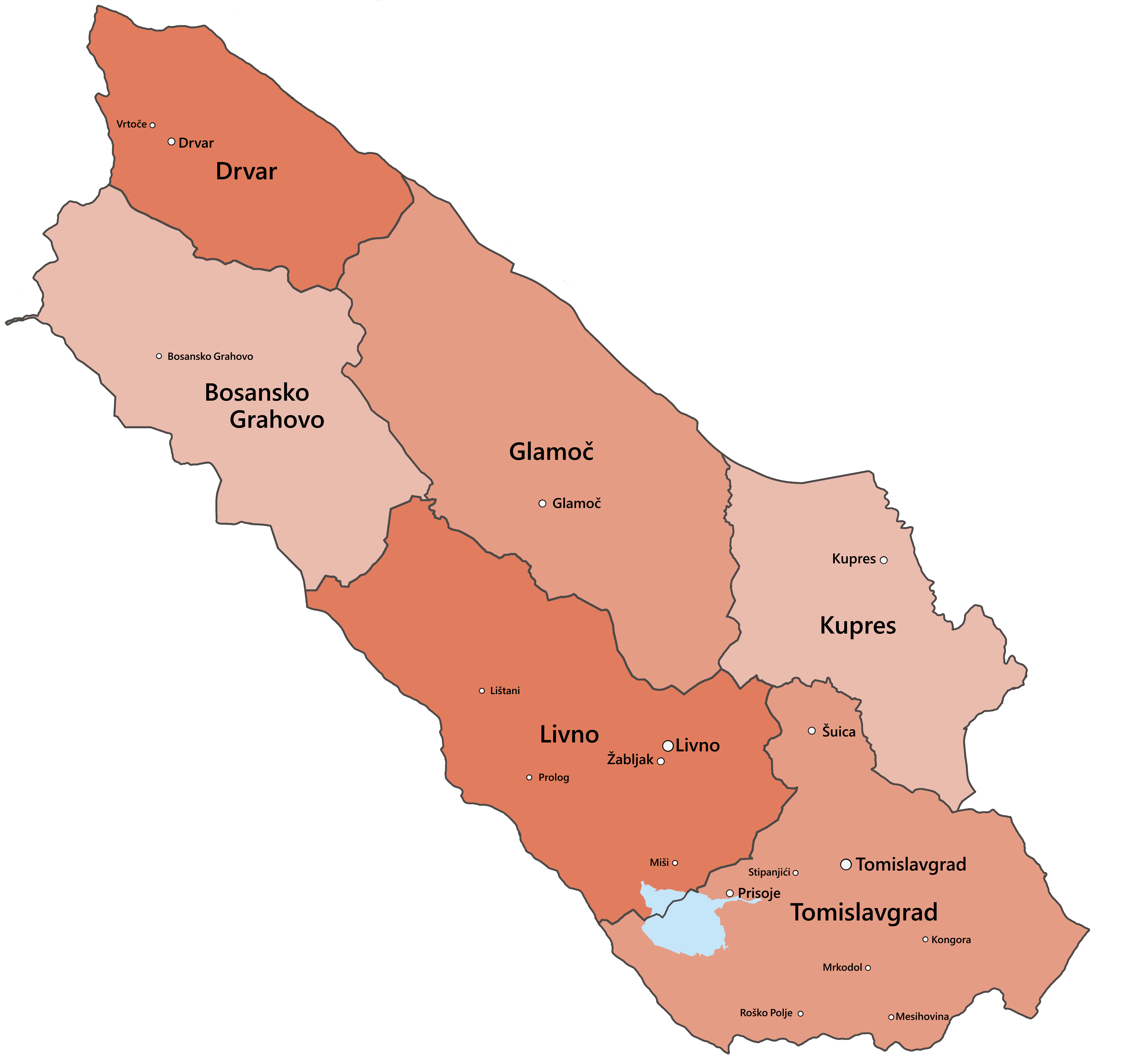 Map of Municipalities of Canton of Herceg-Bosna (Canton 10)